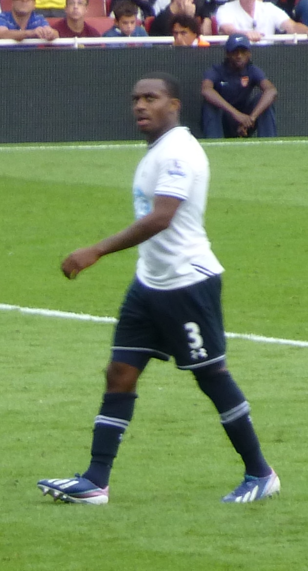 Danny Rose playing for Tottenham Hotspur against North London rivals Arsenal.